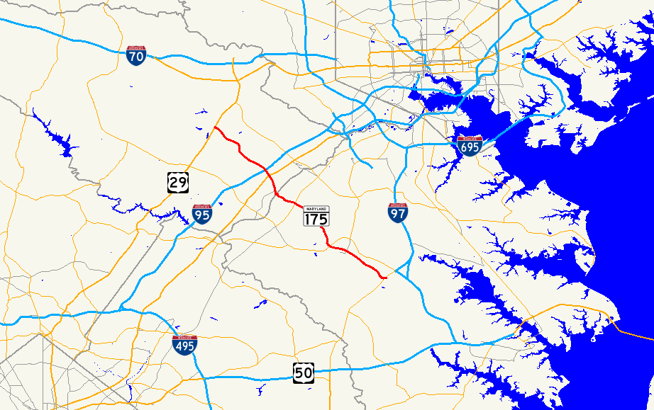 Map of Maryland Route 175